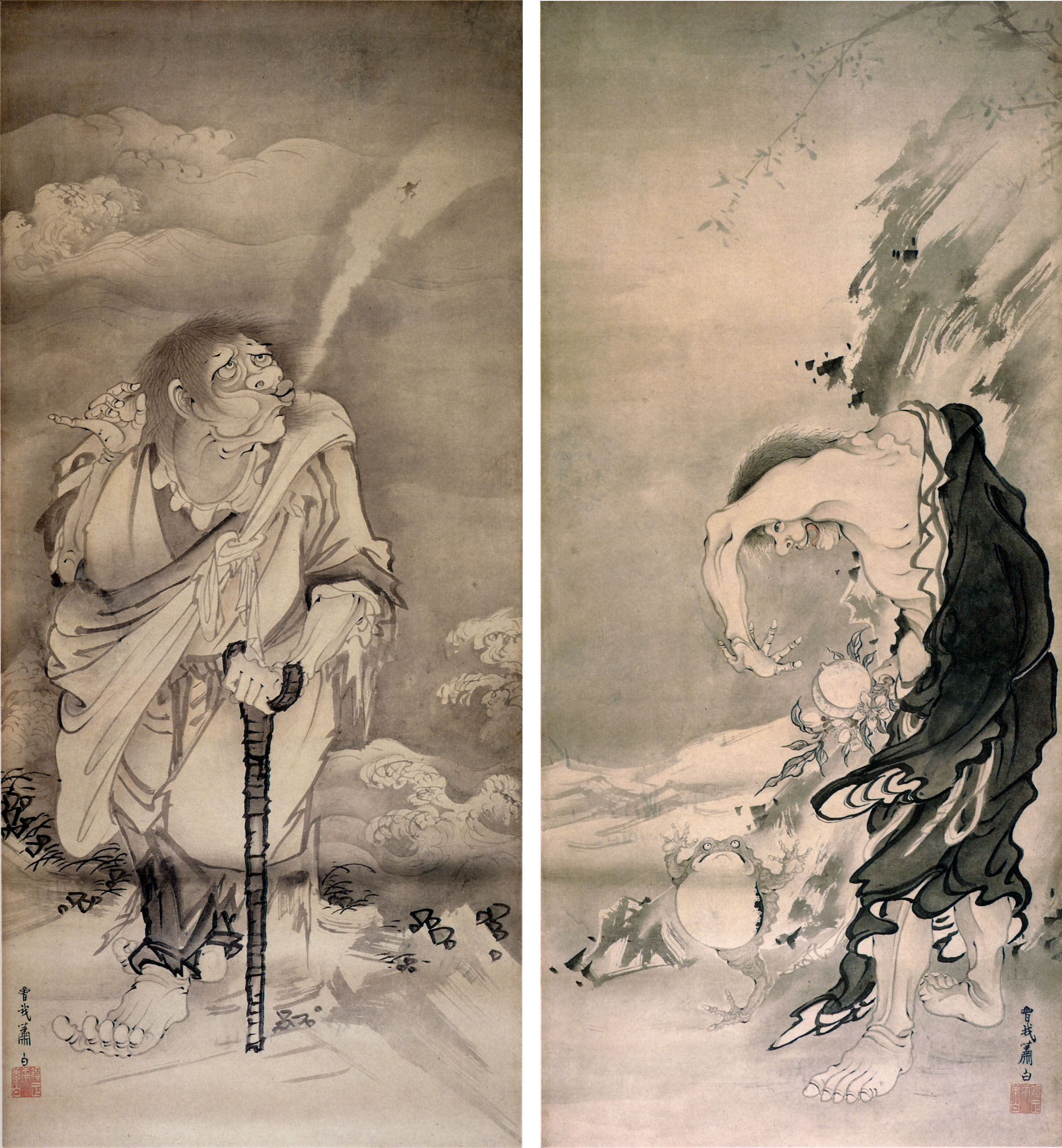 2 paintings (possibly intended as a matching pair of images), combined in one image file. Iron-crutch Li is depicted in the painting on the left. The main figure in the painting on the right Liu Hai. The painting on the right also includes Chan Chu (the three-legged toad, symbol of money & immortality) & a peach (another symbol of immortality); still attached to its branch, with foliage (leaves & blossoms) visible. Author；Soga Shōhaku Museam of Fine Art,Boston;Bigelow Collection